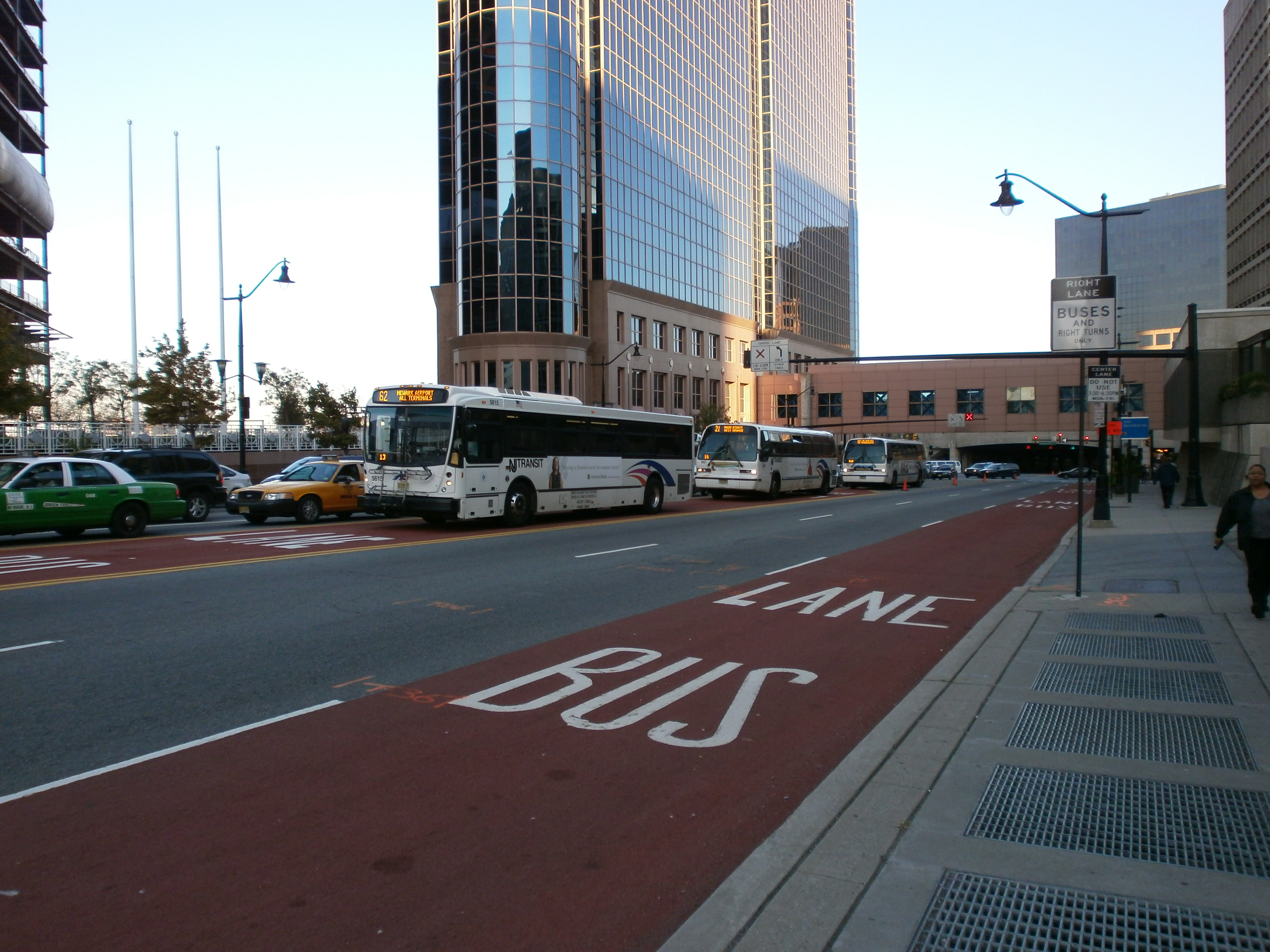 Newark Penn Station XBL (exclusive bus lane) on Raymond Blvd.